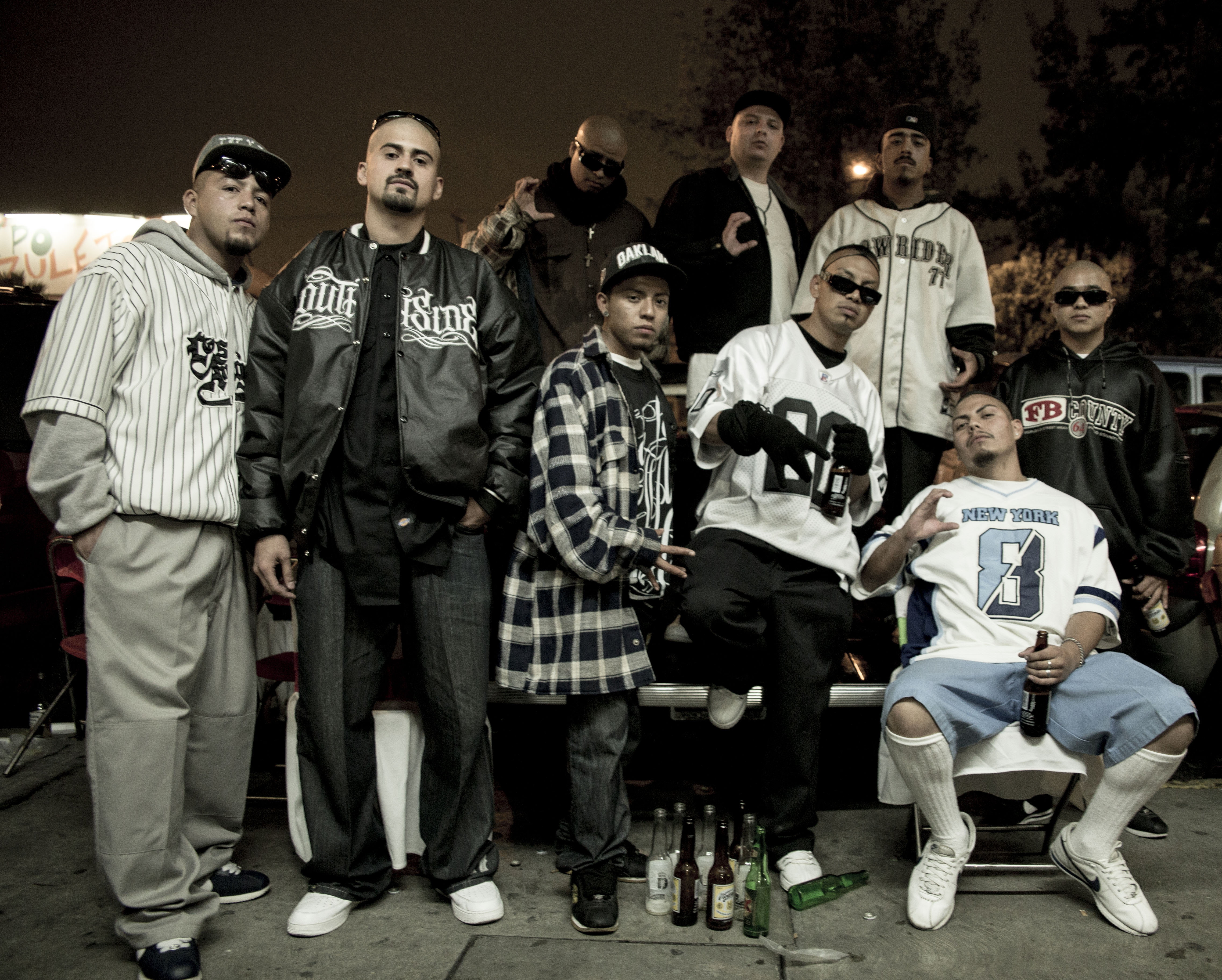 Cacos 13, Cholos Neza